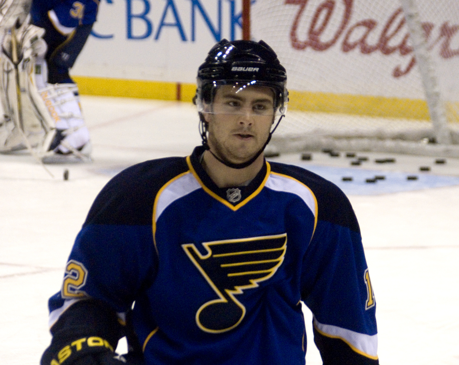 ERI_5065 St. Louis Blues vs. Colorado Avalanche - National Hockey League - 2010–11 NHL season. Erik Johnson and Jay McClement returned for the first time to face their former team. The Avs won. Photo taken by Sarah Connors on February 22, 2011. This photo also appears in Sarah Connors Flickr set "Blues vs. Avs, 2/22/11" (Set of 86).